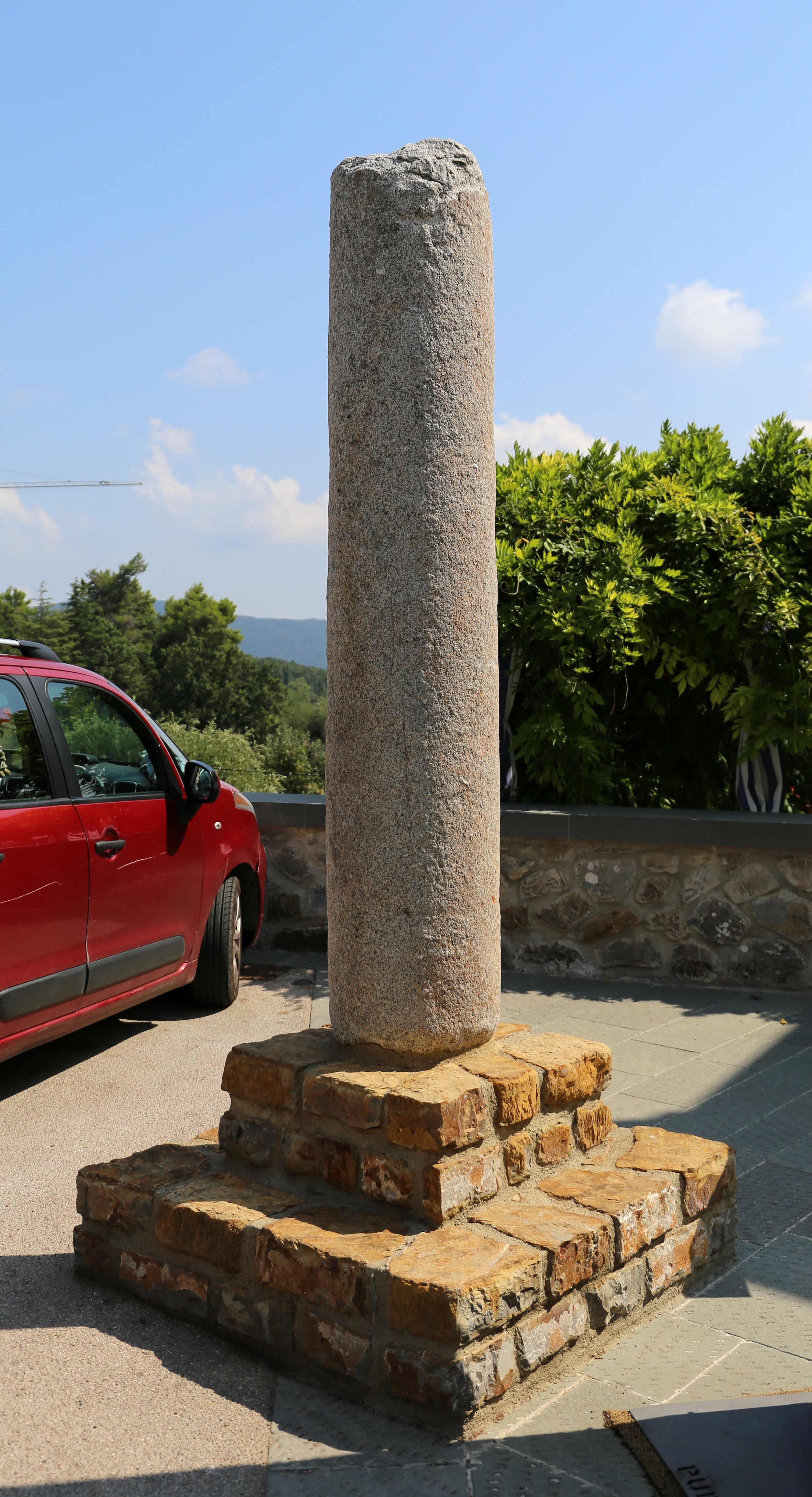 Monteverdi Marittimo